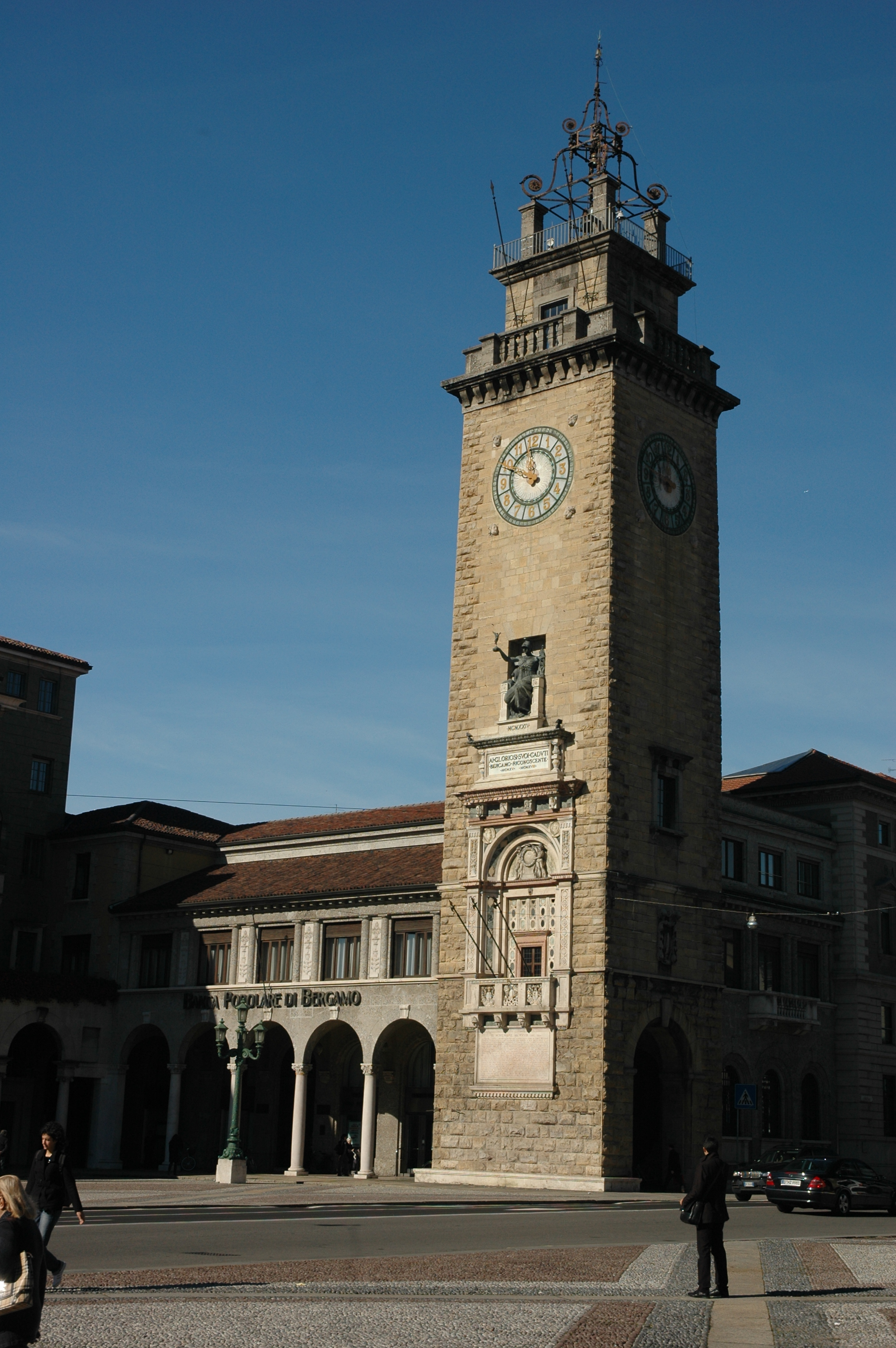 Country : Italy Region : Lombardy Province : Bergamo (BG)